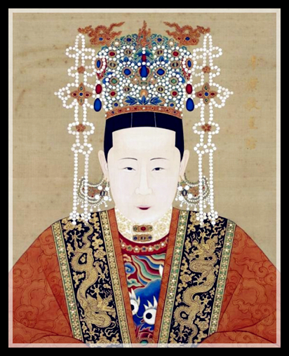 Portrait of Empress Xiaokang of Ming DYnasty China